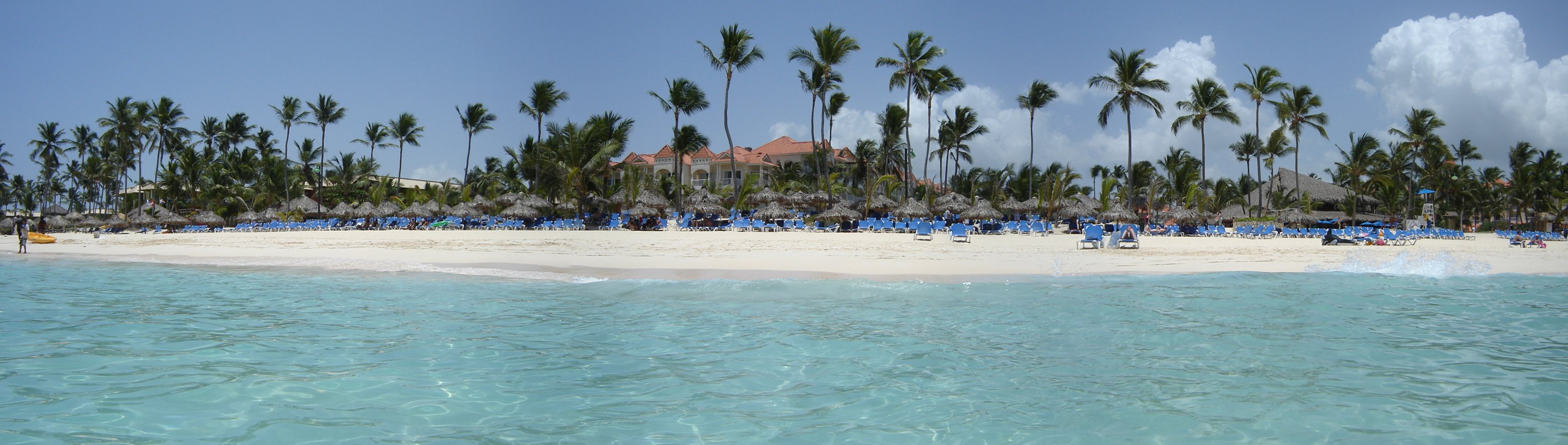 Panoramic view of a beach in Punta Cana, Dominican Republic.